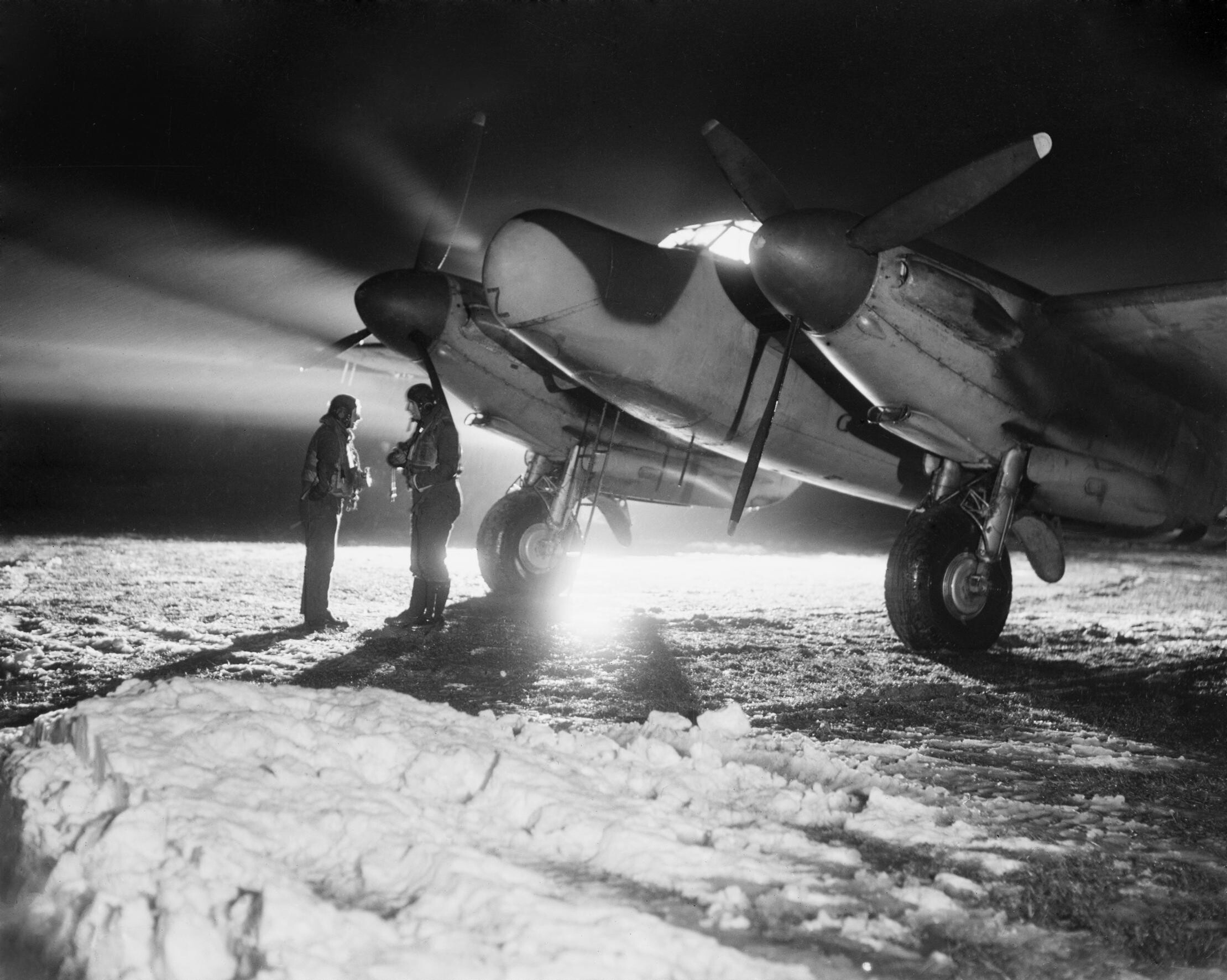 Royal Air Force- 2nd Tactical Air Force, 1943-1945. Warrant Officer D Gosling (left) and Squadron Leader G H Hayhurst of No. 604 Squadron RAF, stand in front of their De Havilland Mosquito NF Mark XII in the snow at B51/Lille-Vendeville, France, before taking off on a night-fighter sortie.